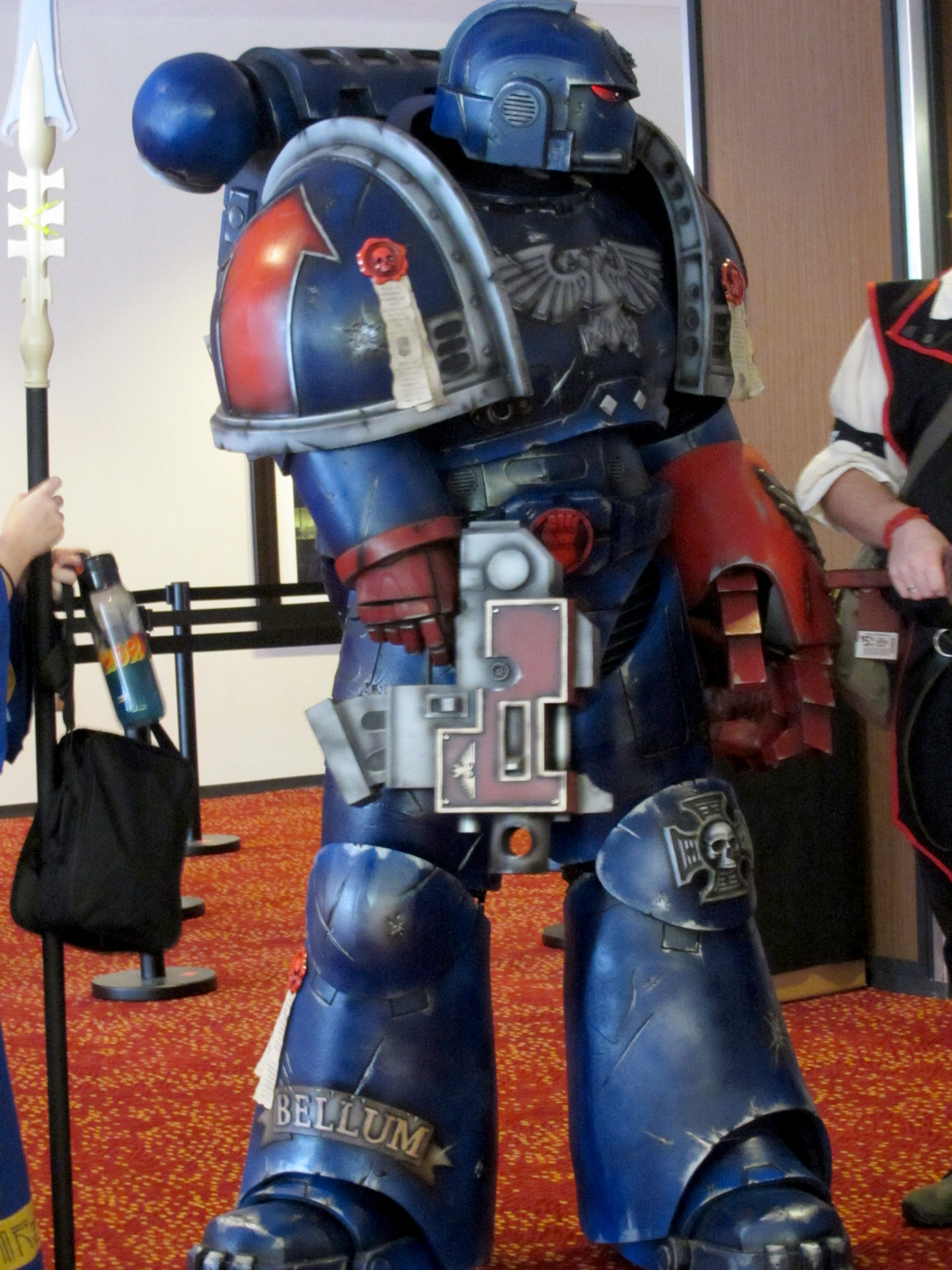 Cosplay of a Space Marine of the Crimson Fists chapter (from Warhammer 40,000) at Dragon Con 2014.